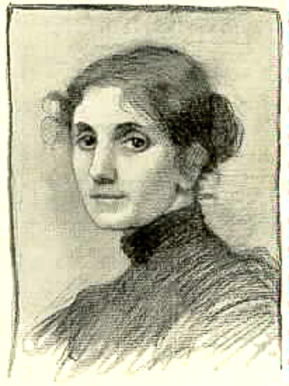 possibly Self-portrait of Marianne Stokes (1855-1927)